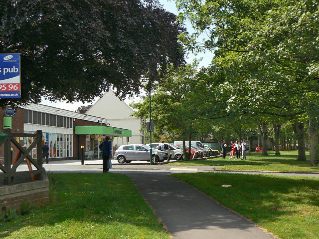 Co-op at Wilford Green A smallish supermarket, but very much the local shop.